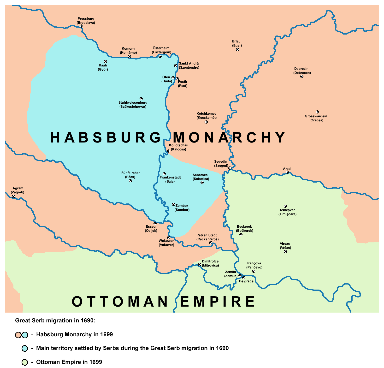 Map that show Great Serb migration in 1690.